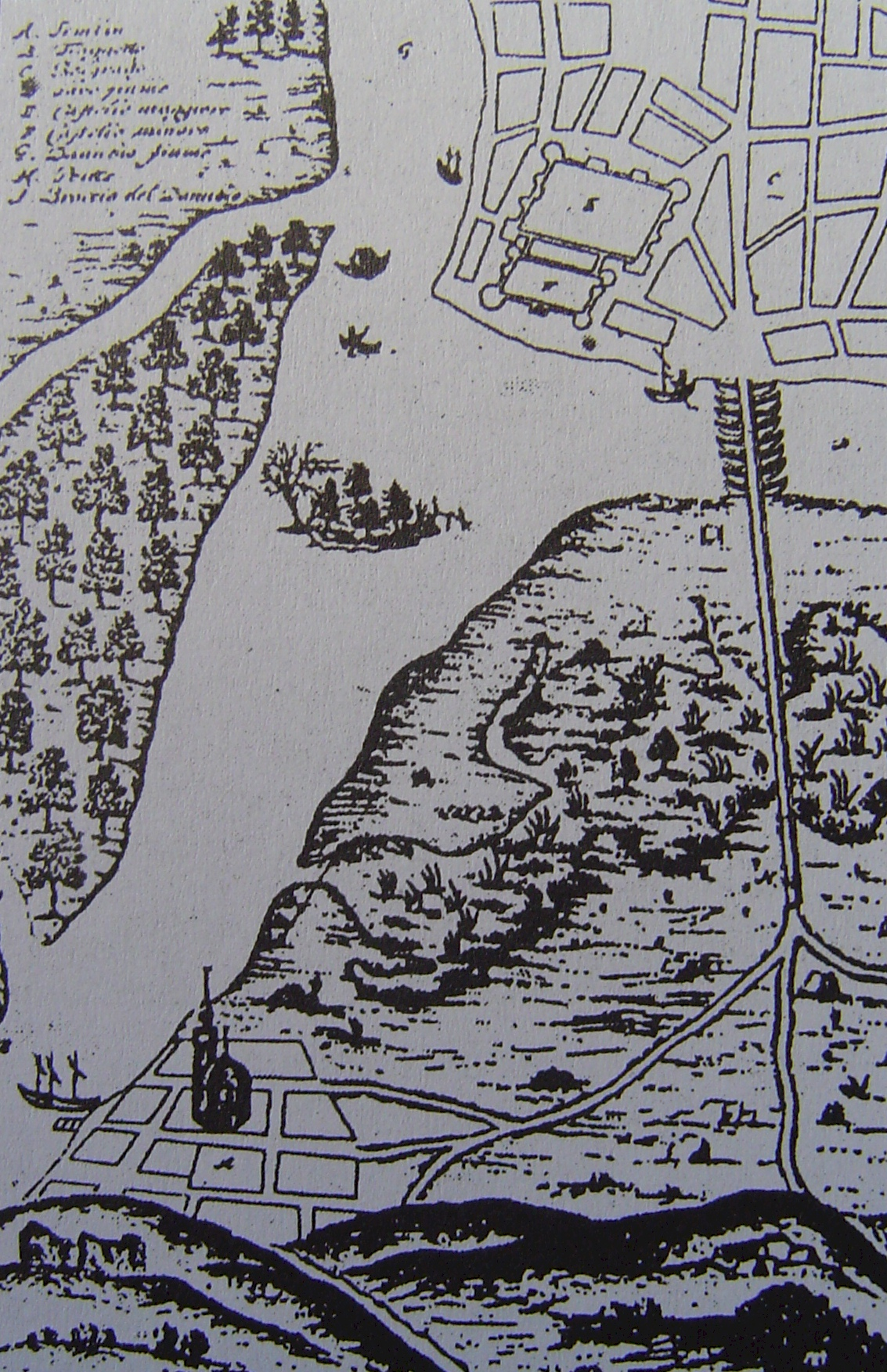 Map of Zemun and Belgrade, made in 1688.